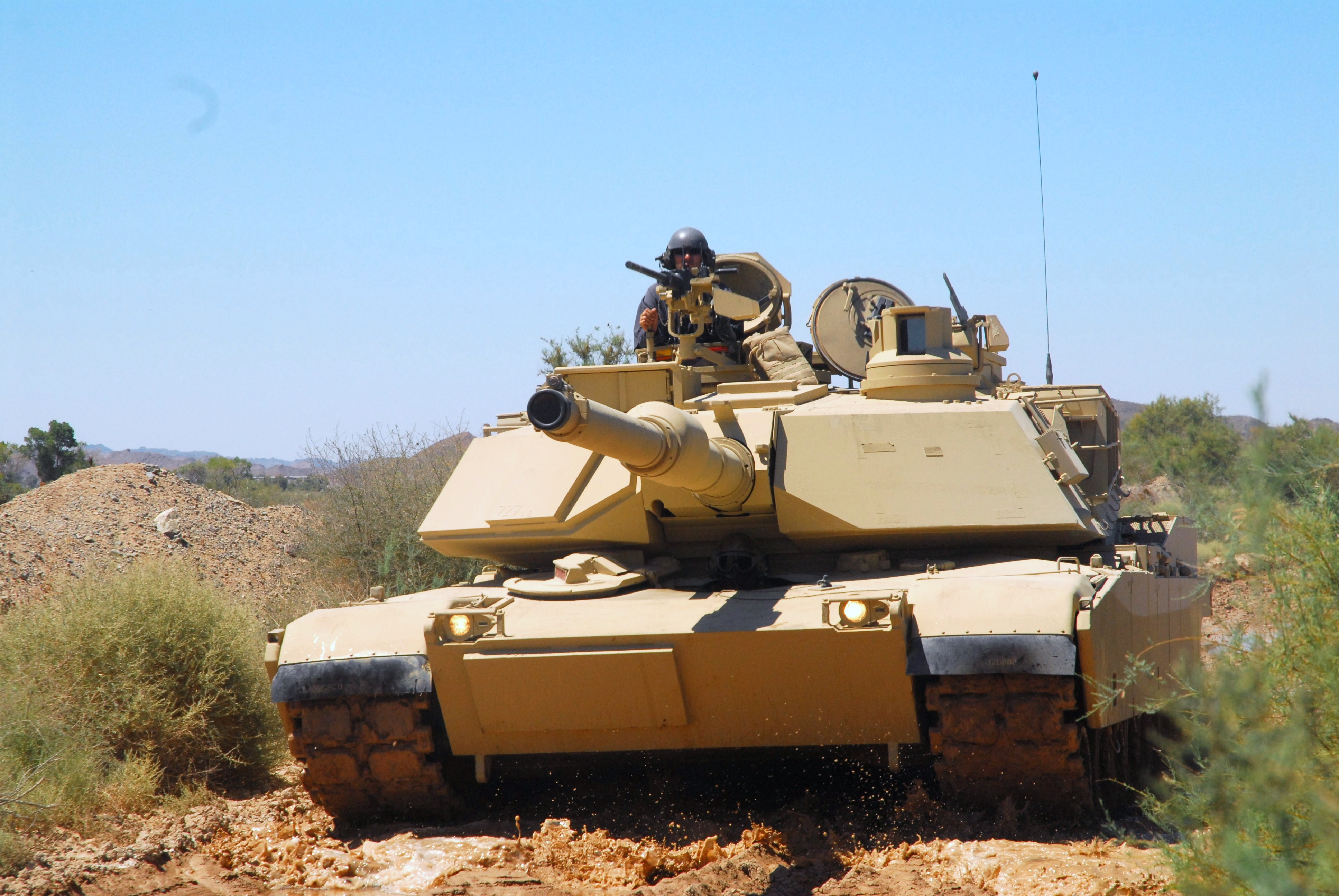 Considered the most agile and lethal main battle tank in the world, the M1 Abrams plows its way through mud at Yuma Proving Ground. The M1 tank has been a consistent resident of the proving ground since initial versions were tested at YPG in the late 1970's.